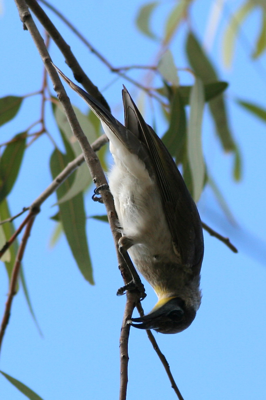 Little Friarbird, Philemon citreogularis